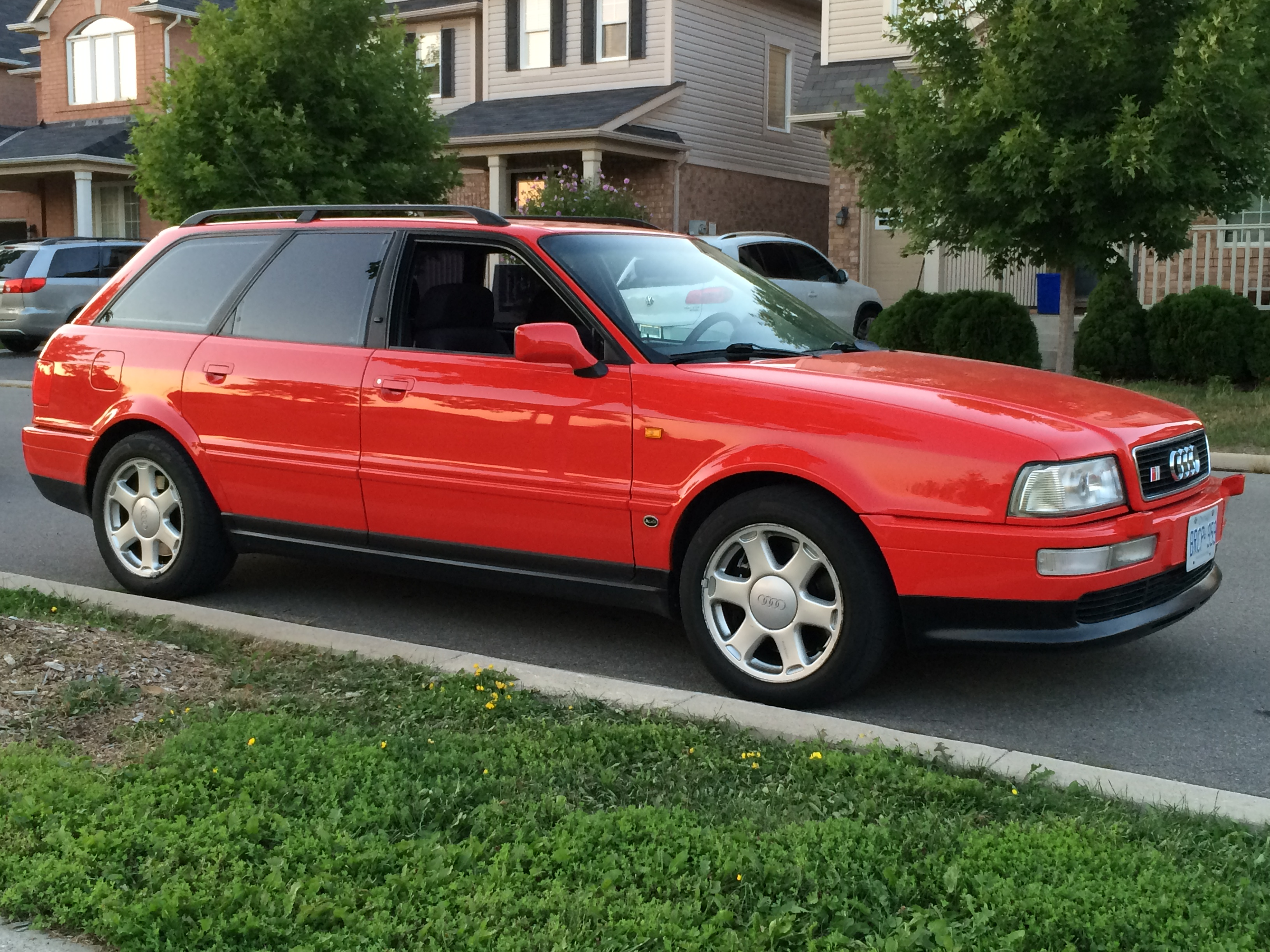 Canadian evening shootout